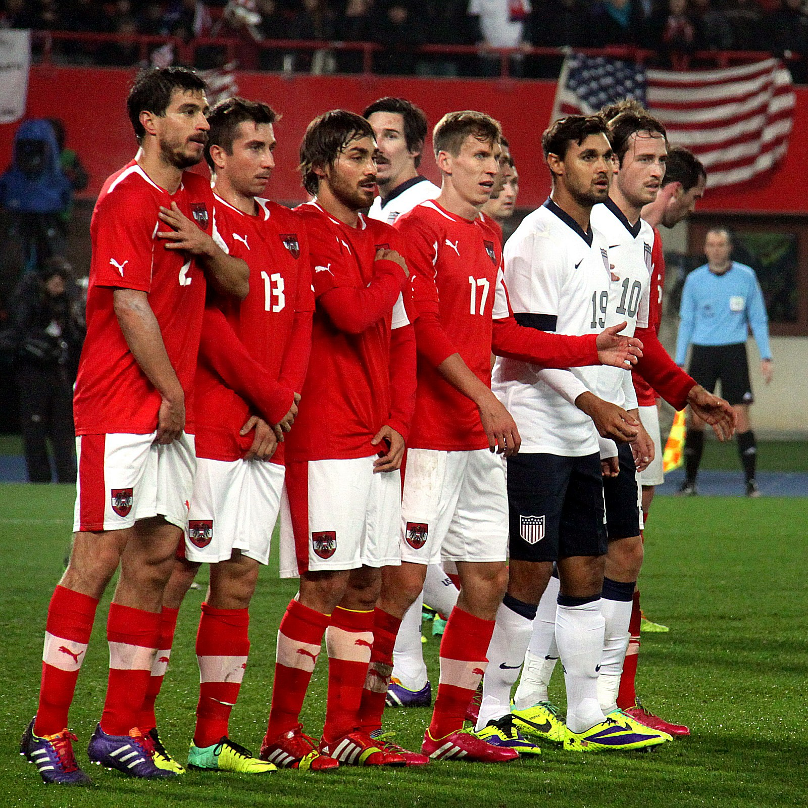 Friendly-match Austria (red shirts) vs. USA (white shirts) (1:0) in the Ernst-Happel-Stadion in Vienna at 2013-03-22. – The photo shows György Garics, Markus Suttner, Veli Kavlak, Florian Klein, Chris Wondolowski und Mikkel Diskerud.